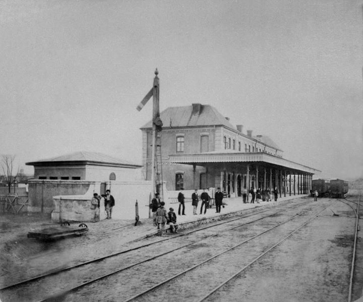 Giurgiu Train Station 1873